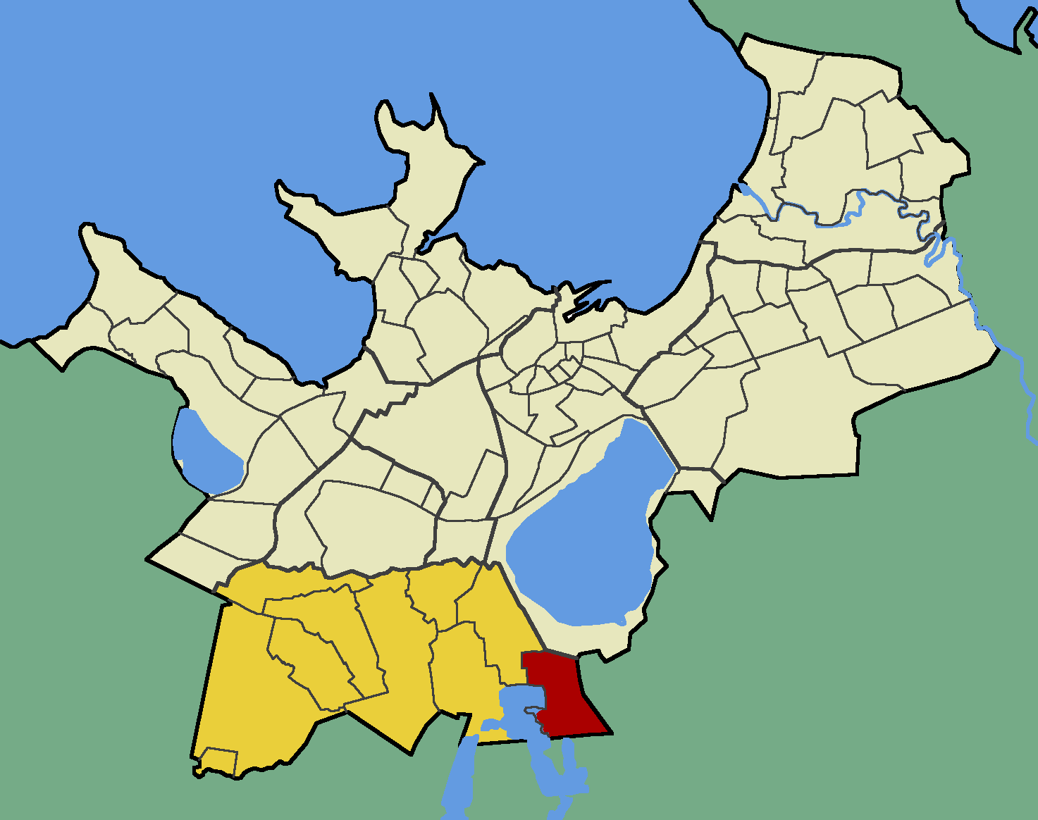 Map of Tallinn (Estonia) with borders of the quarters, Nõmme district and Raudalu quarter emphasised